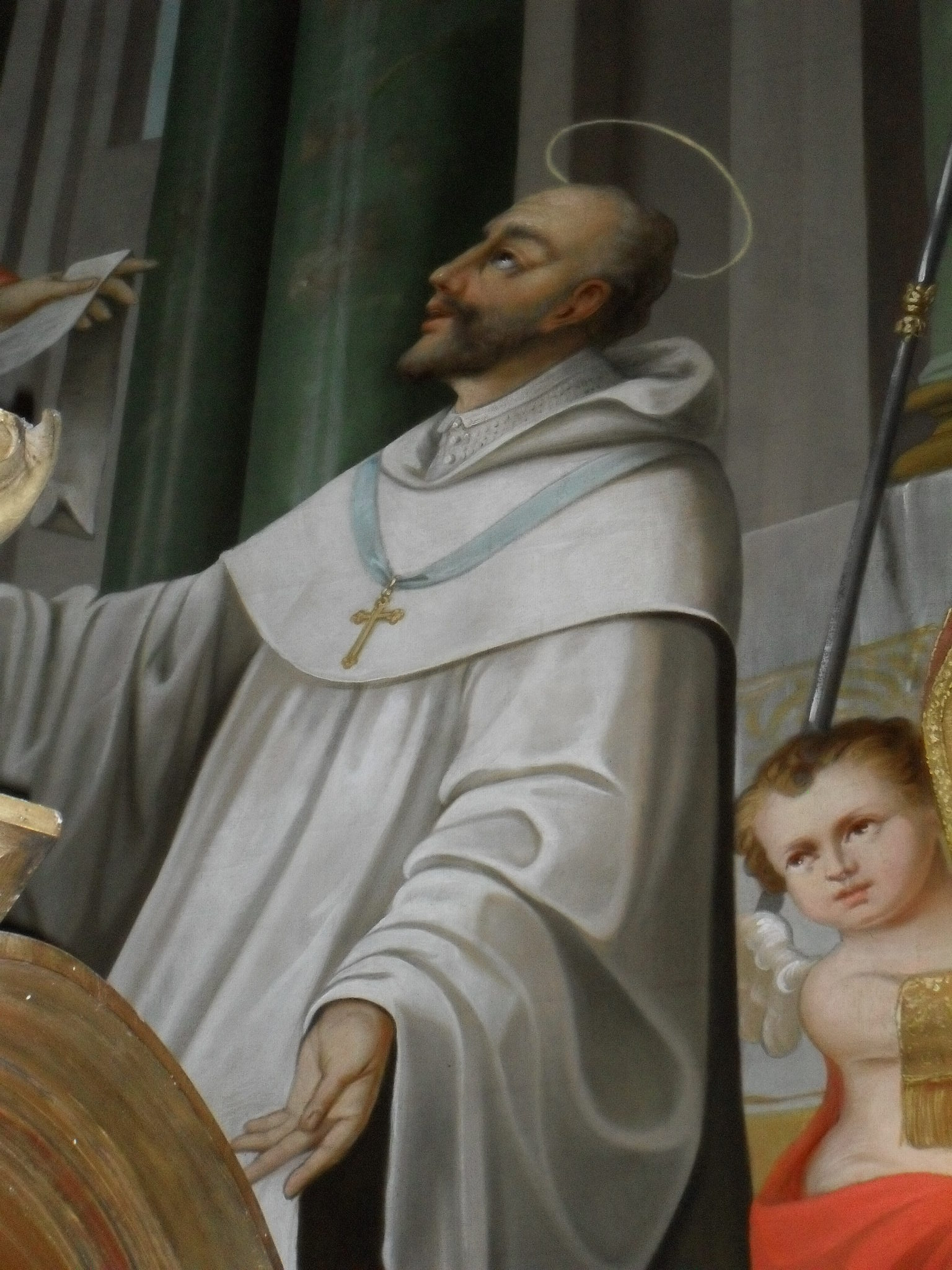 The portrait of St. Stephen Harding in the high altar of Church Apátistvánfalva, Vendvidék, Hungary (18th century)